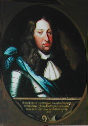 Georg Christian Cirksena, unsigned portrait. See this article on the image's restoration for further information (in German).